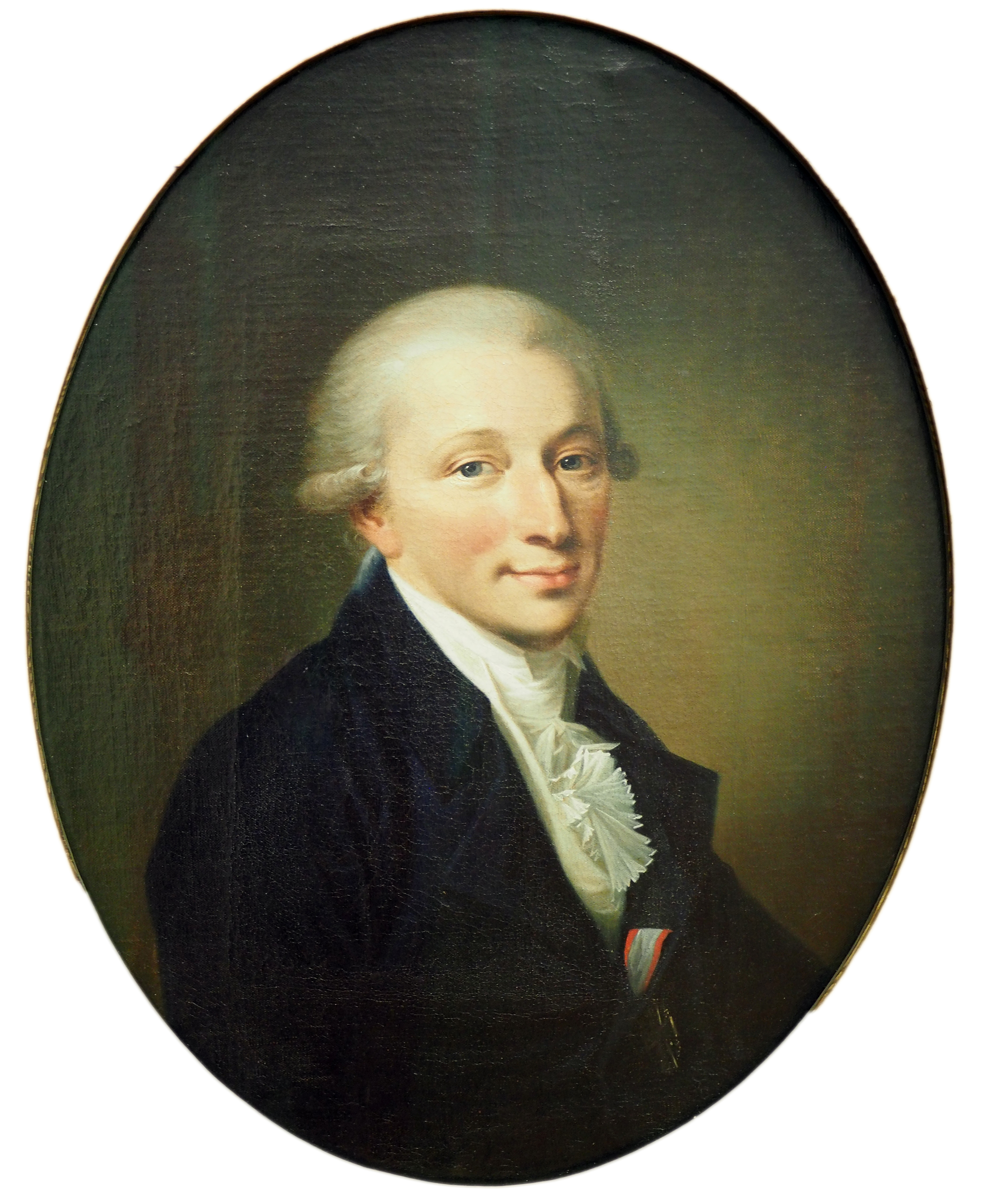 Frederik Christian Winsløw (1752-1811) was trained as a surgeon by his uncle, and later educated in Paris and London. He served at the Danish Naval Hospital ("Søkvæsthuset") and gave lectures at the Copenhagen University. In 1801 he was appointed court surgeon, in 1803 member of the College of Health. Member of the royal medical society. He was contaminated with dropsy and died in 1811. He left part of his fortune to the Frederiks hospital and to the Birth Foundation.